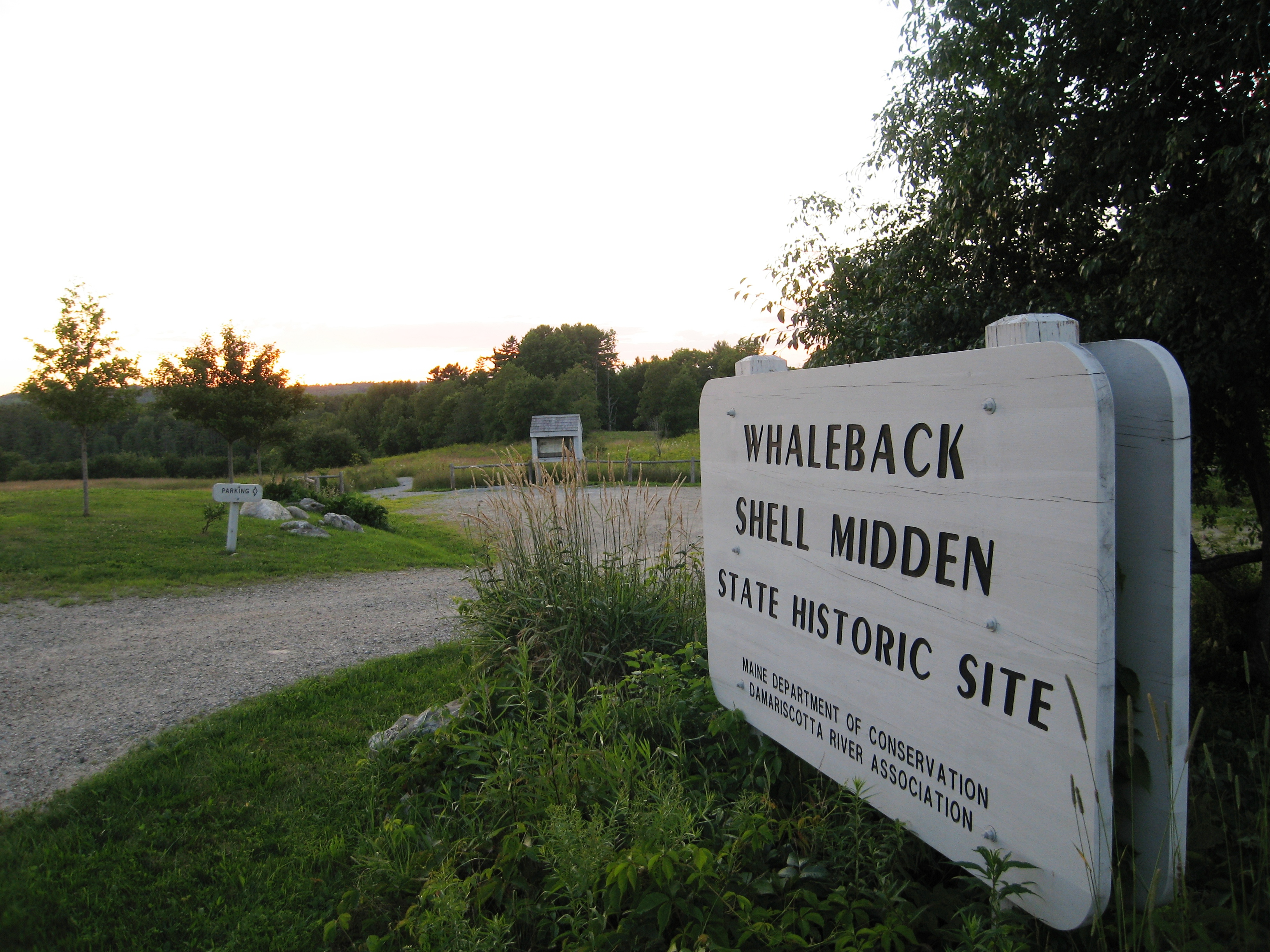 Entrance to the Whaleback Shell Midden State Historic Site in Maineen.